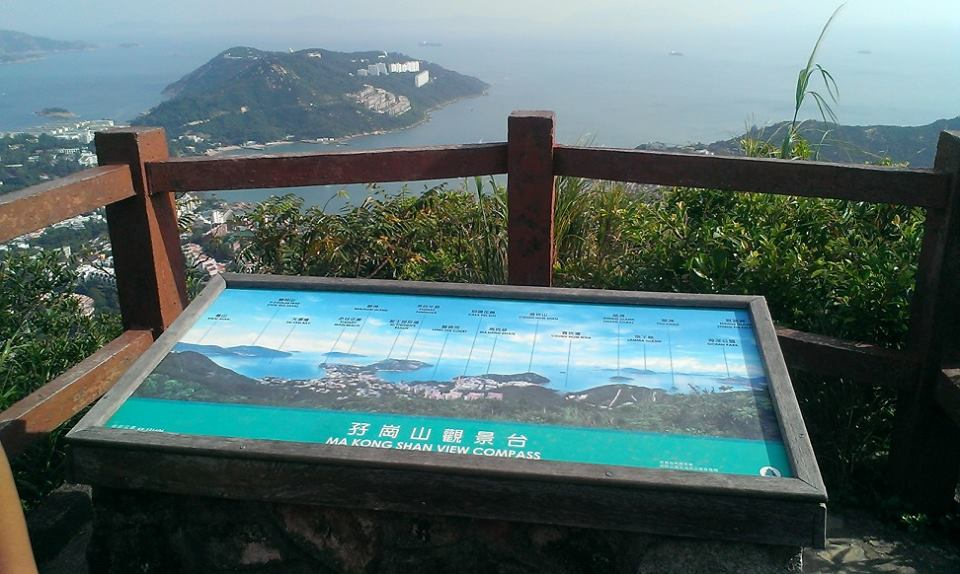 The Twins Observatory Board